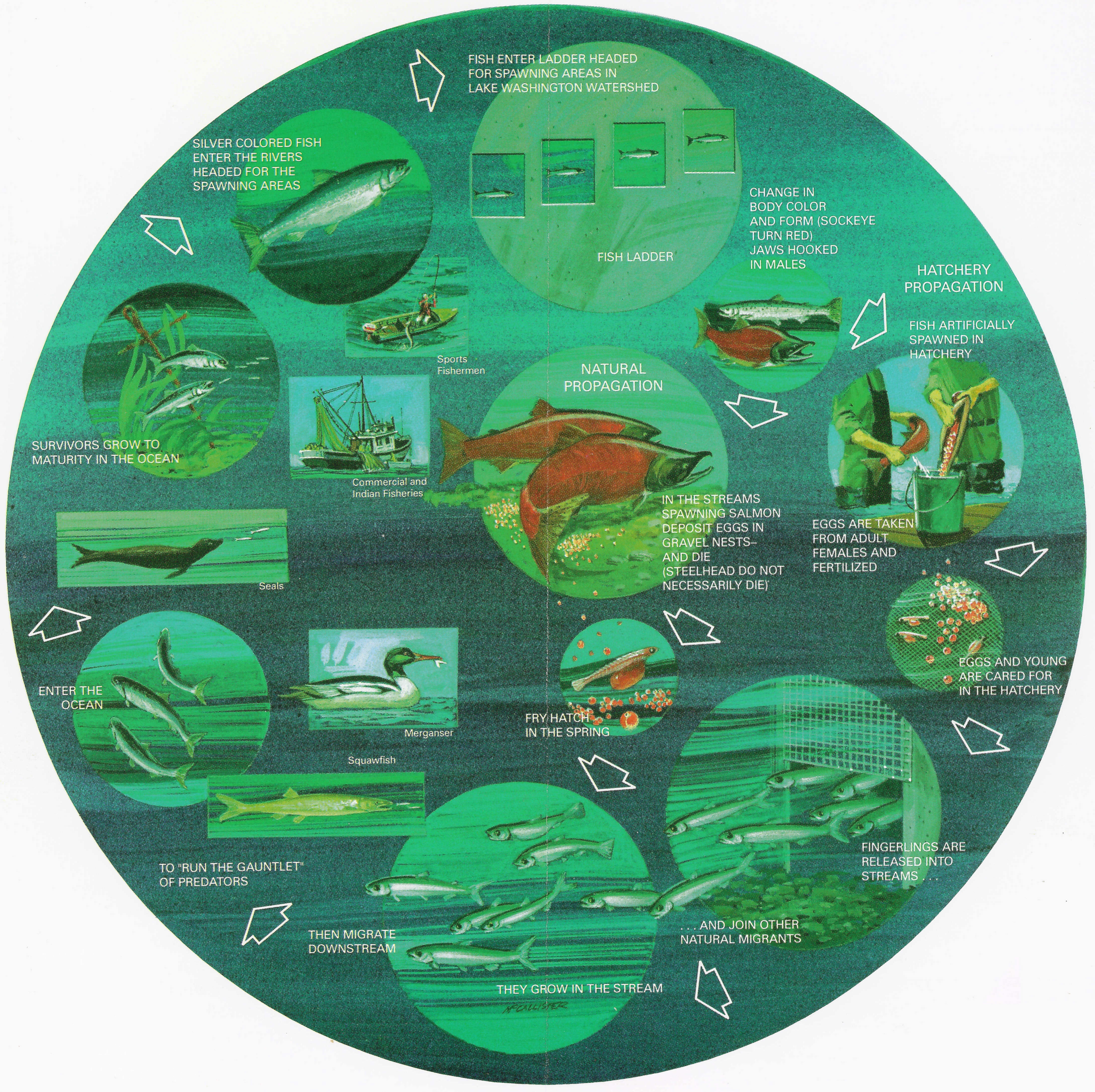 Life cycle chart (of anadromous fish that come through the Lake Washington Ship Canal Fish Ladder). From a pamphlet about the fish ladder, which is located across the channel from the Hiram Chittenden Locks, Seattle, Washington. Scanned at 600 dpi and slightly cleaned up. The diagram covers both natural propagation and hatchery propagation. In the pamphlet, a remark to the lower right of the diagram says, "Length of the life cycle and of hatchery care vary with species and conditions."